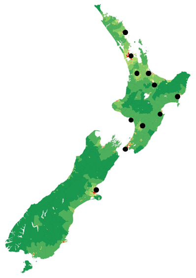 This is a map of Mai FM frequencies, and population density.